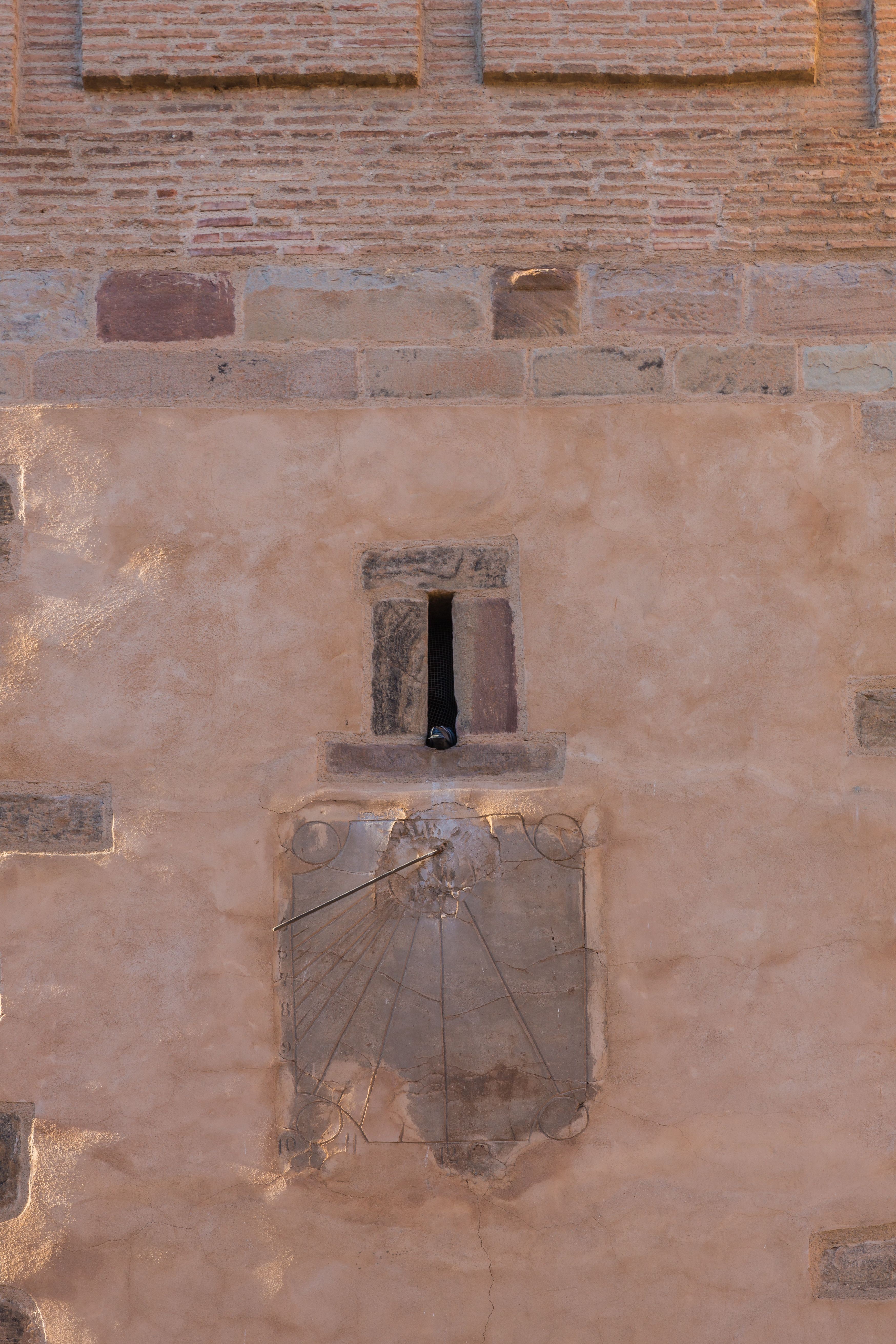 Church of Santa Ana, Morata de Jalón, Zaragoza, Spain